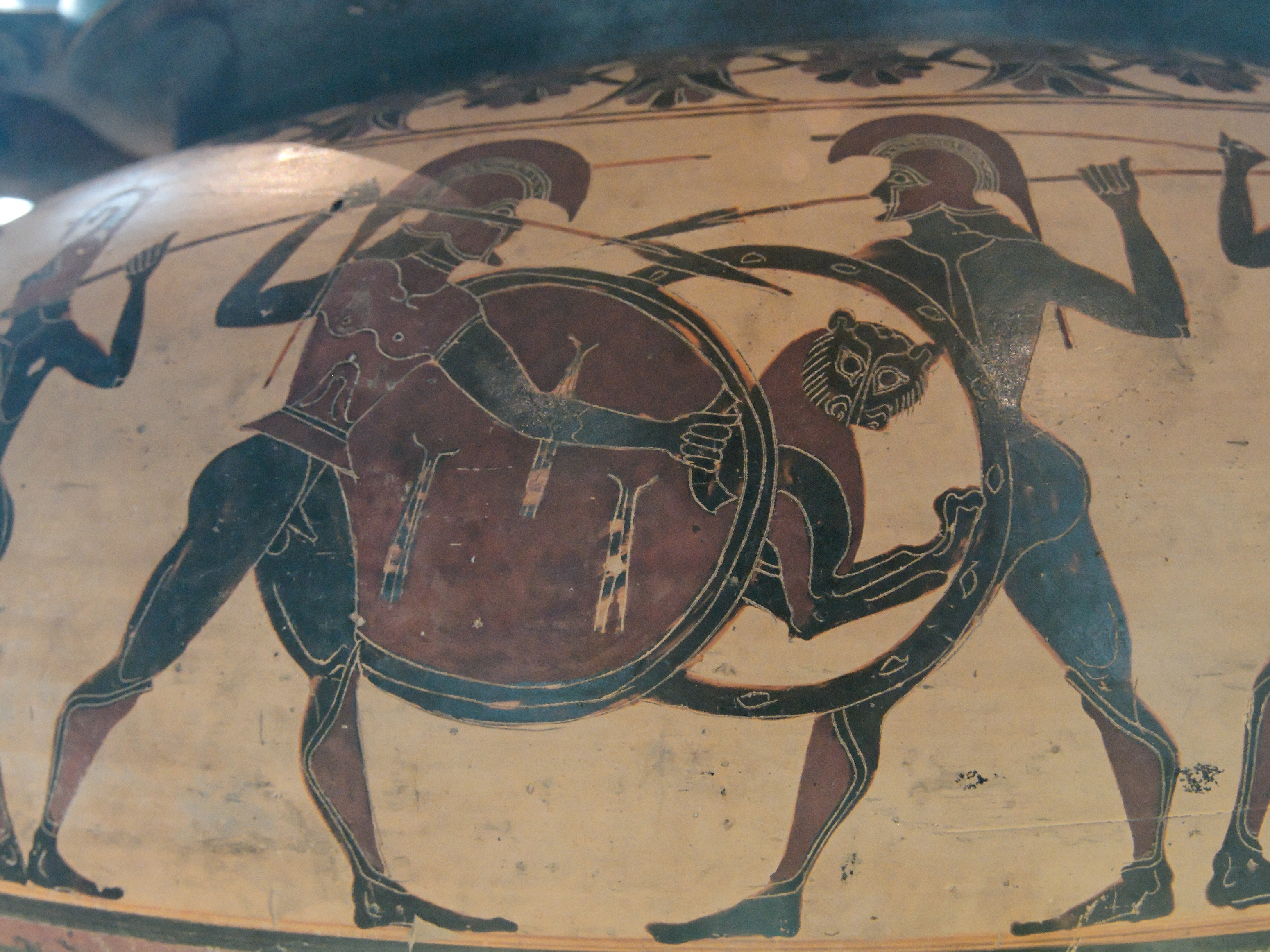 Hoplites fight. Upper tier, side B of the so-called Eurytios Krater, a Corinthian column-krater, ca. 600 BC. From Cerveteri.